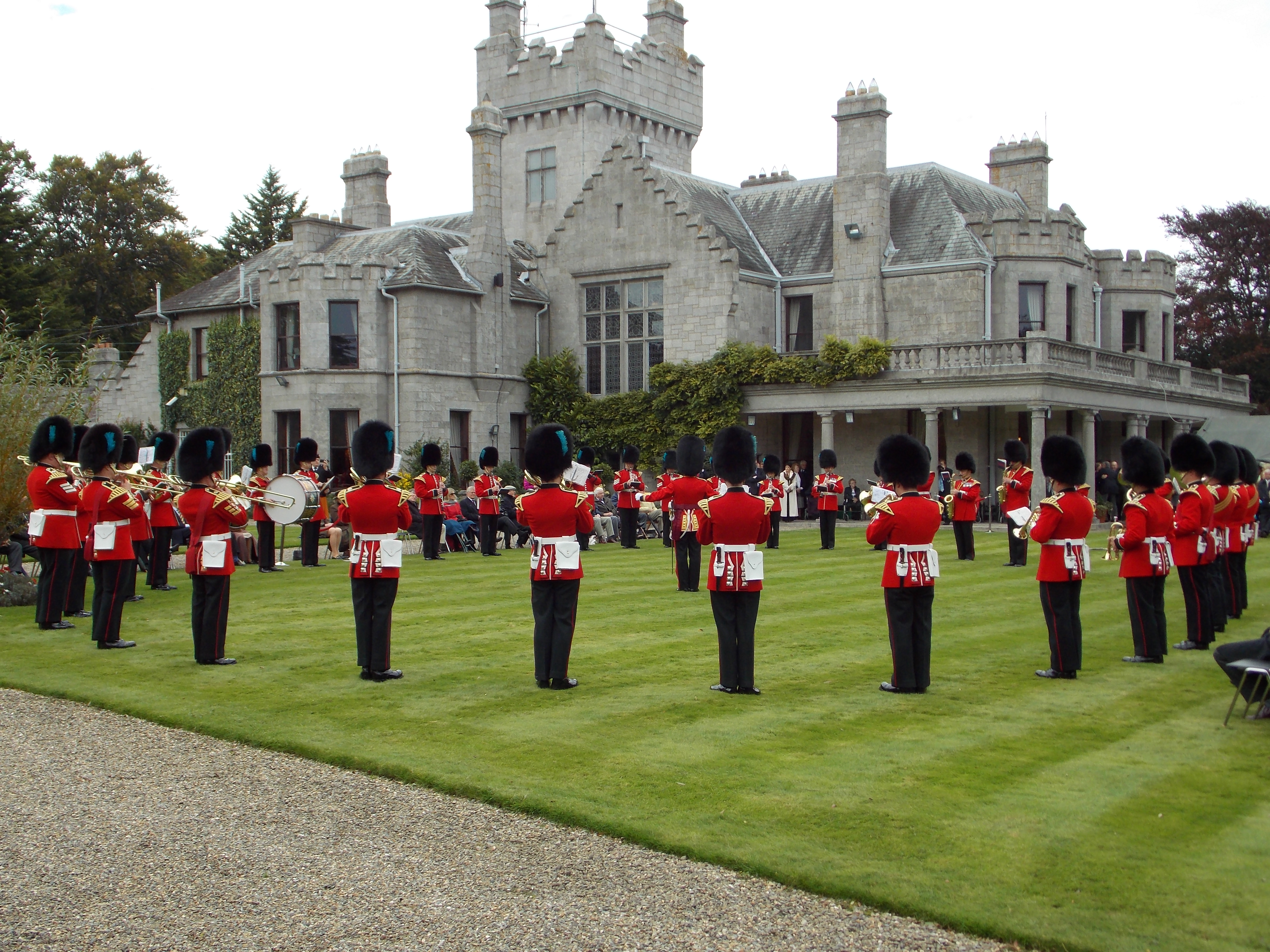 Irish Guards Band at the British Embassy, Republic of Ireland 2012